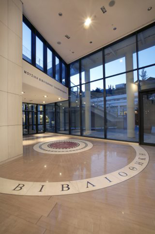 Music Library of Greece "Lilian Voudouri", entrance